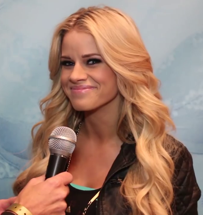 Jessa Rhodes AVN 2014